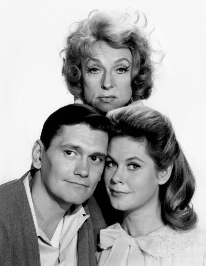 Main cast photo from the premiere of the television progam Bewitched. At top is Agnes Moorehead as Endora, the mother of Samantha Stephens. Left is Dick York as Darrin Stephens, and right is Elizabeth Montgomery as his wife, Samantha.